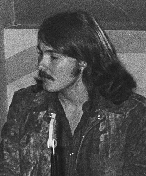 Flying Burrito Bros giving a press conference in the Birdsclub, Amsterdam (NL), 23 Nov. 1970. From left to right: Sneaky Pete Kleinow, Rick Roberts, Chris Hillman, Michael Clarke, Bernie Leadon